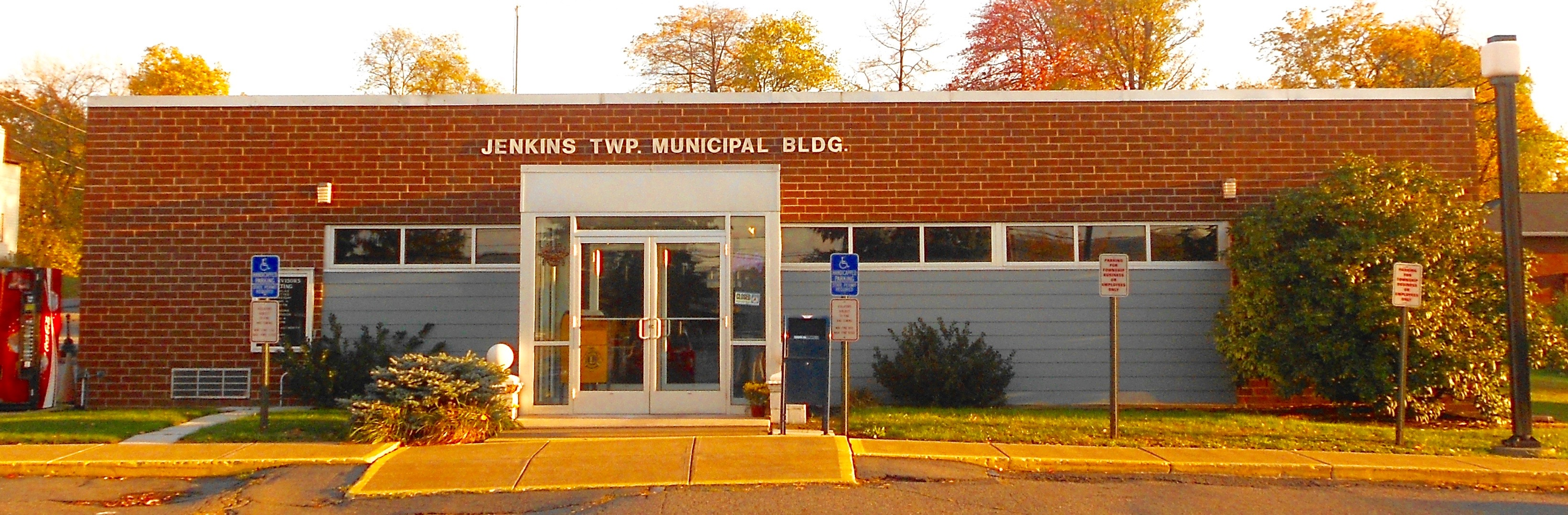 Jenkins Township Municipal Building in the unincorporated village of Inkerman, Luzerne County, Pennsylvania